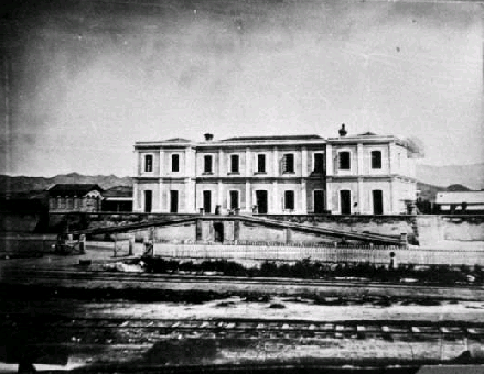 Train station in Águilas in 1888